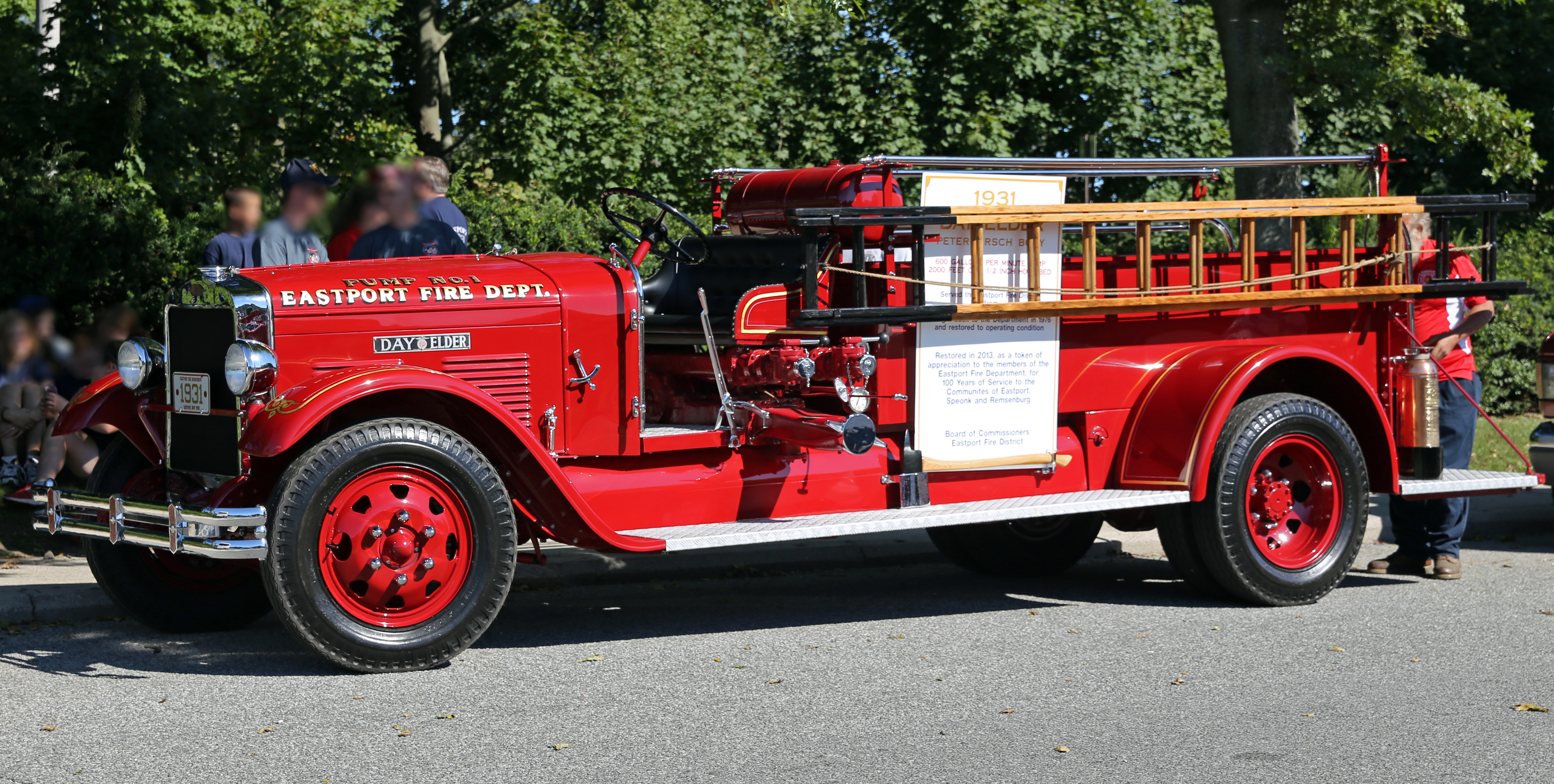 1931 Day-Elder pumper with Peter Pirsch body and fire fighting equipment, belonging to the Eastport Fire Department (Long Island, NY) on a parade at the Southampton LIRR station. This vehicle was the first one belonging to the EPFD, and was restored in 2013 to celebrate the centenary of their establishment.